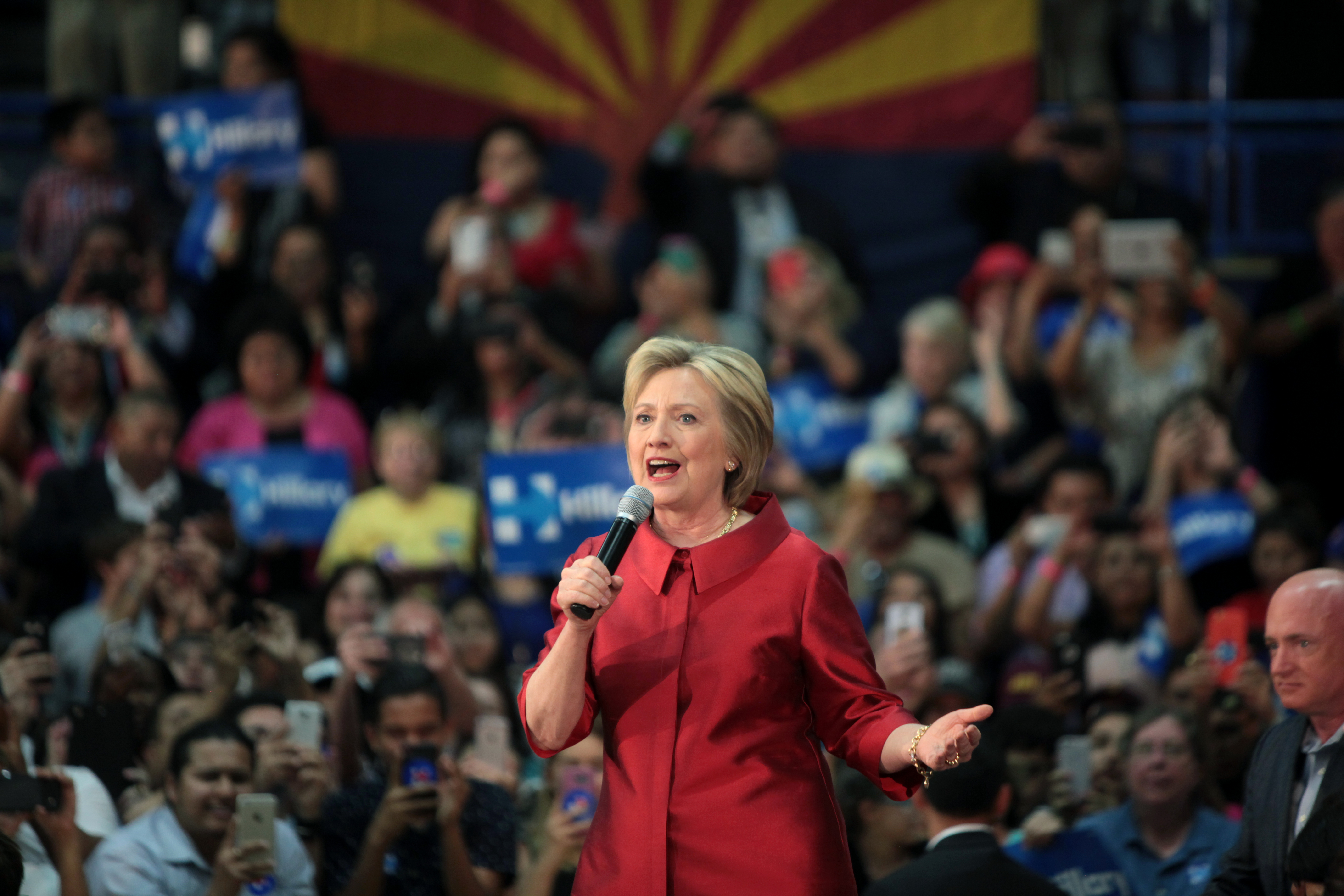 Hillary Clinton speaking at a rally in Phoenix, Arizona.